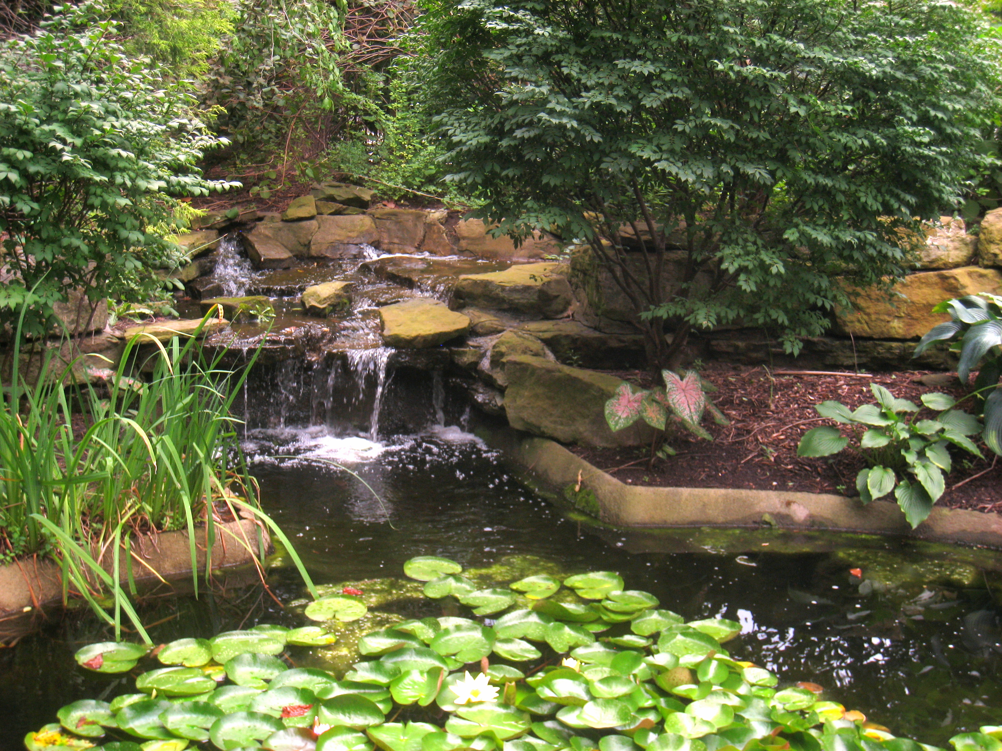 Rodef Shalom Biblical Botanical Garden, Pittsburgh, Pennsylvania, USA.